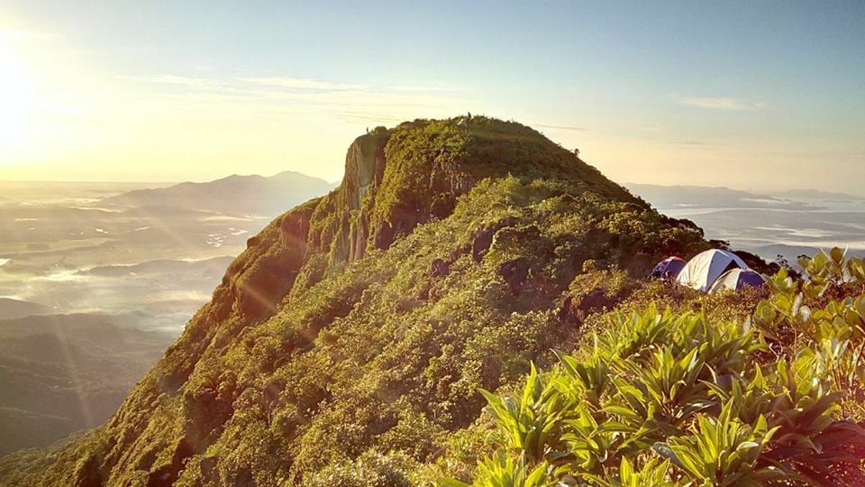 Campin in Monte Crista, city of Garuva, Santa Catarina, Brazil.